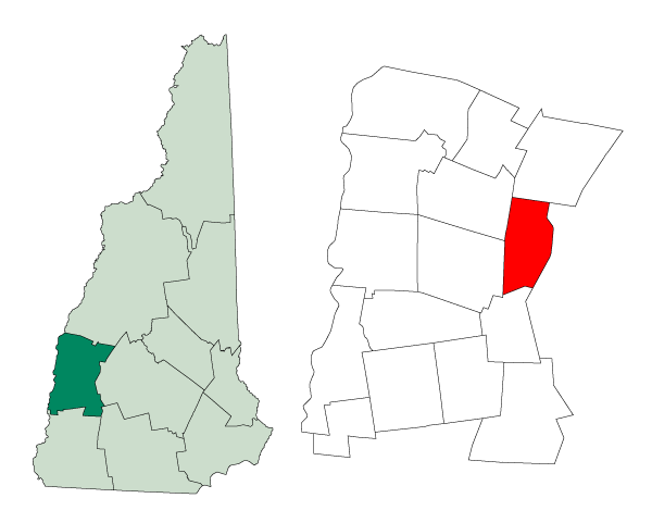 Map of a municipality in Sullivan County, New Hampshire